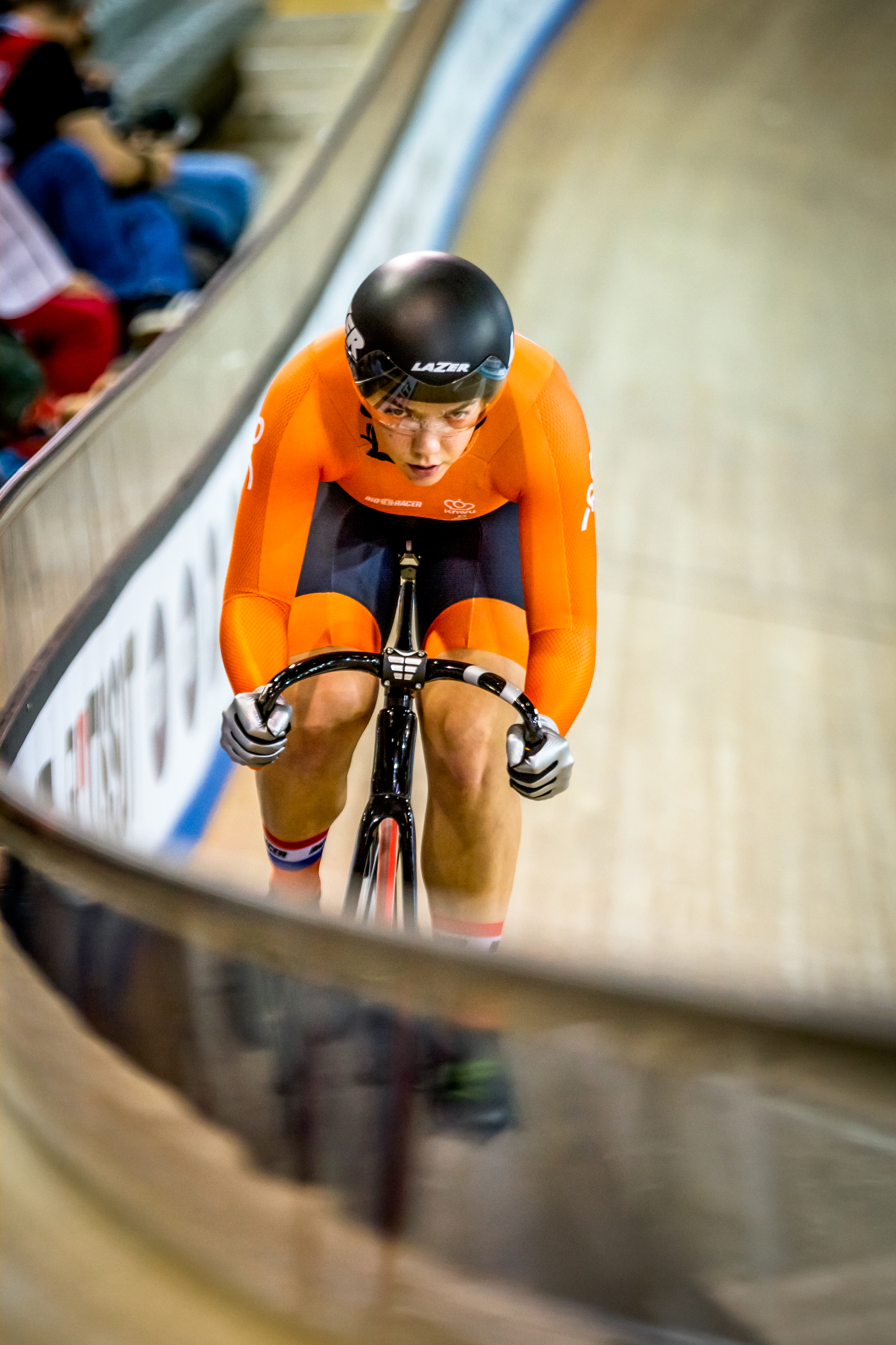 Shanne Braspennincx, Women's Sprint Qualifying (200m), 2017 UCI Track World Cup, Milton, Ontario, Canada.